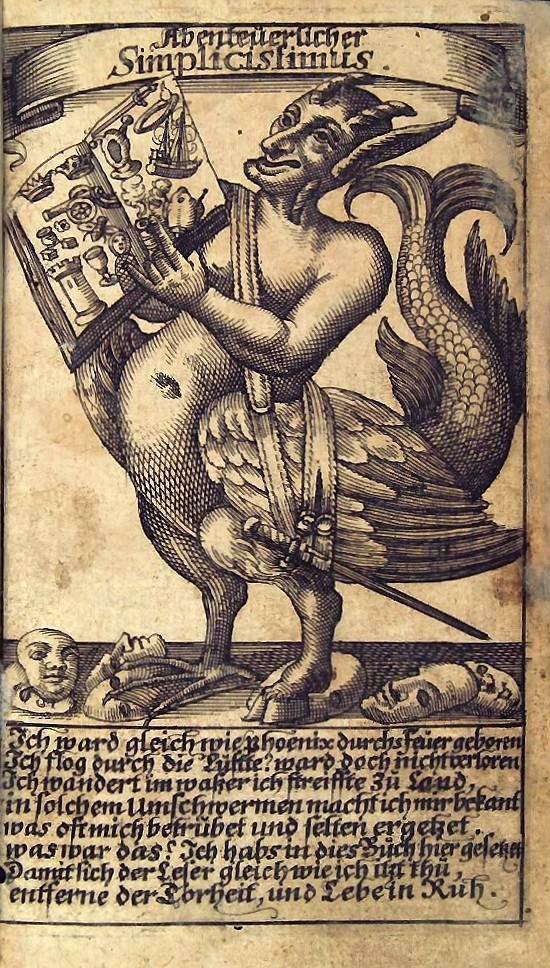 Frontispiece [not cover page!] of Grimmelshausen’s book SimplicissimusTitle top: Abenteuerlicher Simplicissimus [Adventurous Simplicissimus]Caption bottom: Ich ward gleich wie Phoenix durchs Feuer geboren / Ich flog durch die Lüffte? ward doch nicht verloren / Ich wandert im waßer ich streiffte zu Land, in solchem Umschwermen macht ich mir bekant / was oft mich betrübet und selten ergetzet, was war das? Ich habs in dies Buch hier gesetzet / Damit sich der Leser gleich wie ich itzt thu, entferne der Torheit, und Lebe in Ruh. [Like Phoenix I was born from fire / I flew though the airs? yet was not lost / I wandered in water I roamed over land, in such swarming around I made myself known / what oftentimes grieved me and rarely amused / what was that? I put it in this book here / So that the reader, like I'm doing now, may retire from folly and live in peace.]